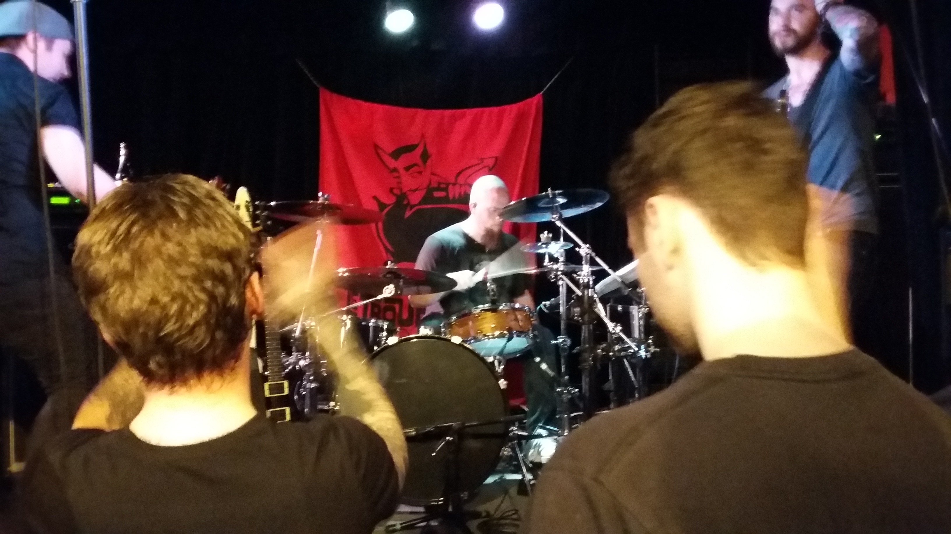 Exterio photographed in Montreal, Quebec, Canada inside Divan Orange.